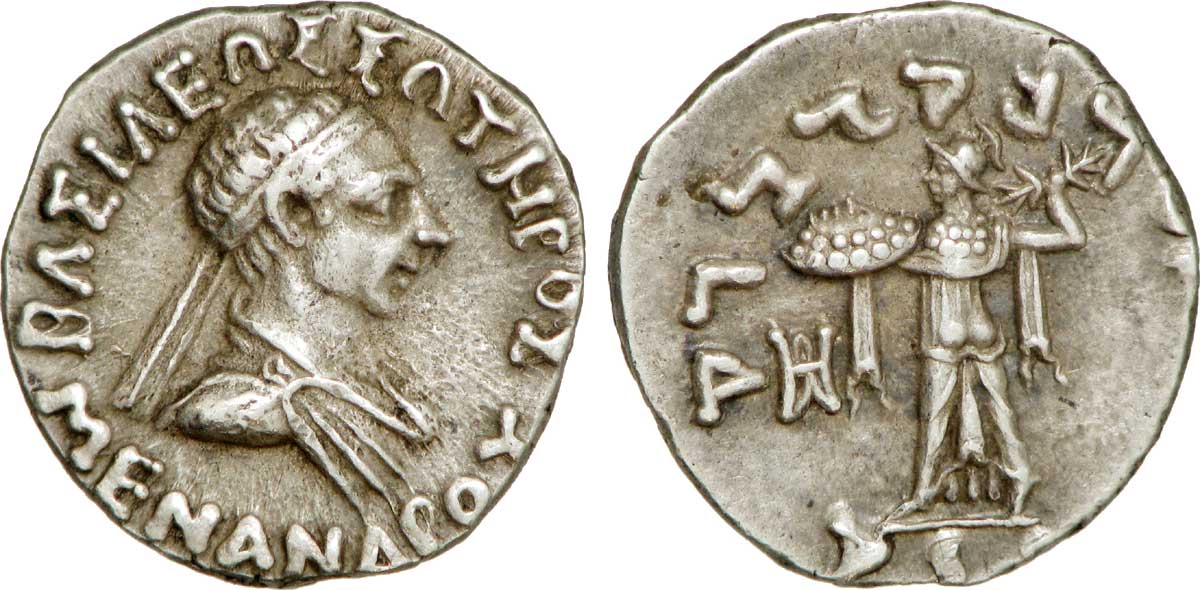 Drachme bilingue du royaume de Bactriane à l'effigie de Ménandre Ier. Date : c. 160-155 AC. Description revers : Athéna Alkidémos combattant à gauche, casquée et drapée, tenant de la main gauche un bouclier orné de l'égide et brandissant de la main droite un foudre ; derrière, un monogramme .